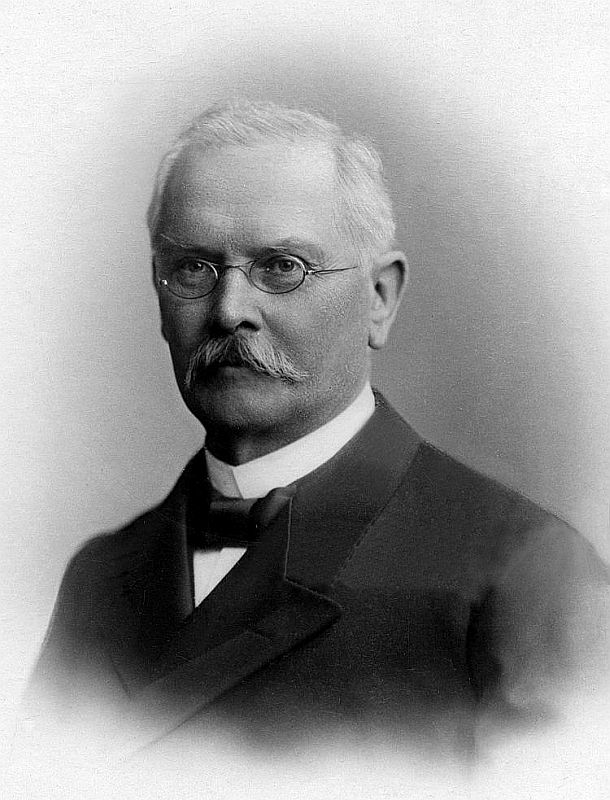 Otto Junghann (1873–1964), german lawyer, politician and minority rights activists